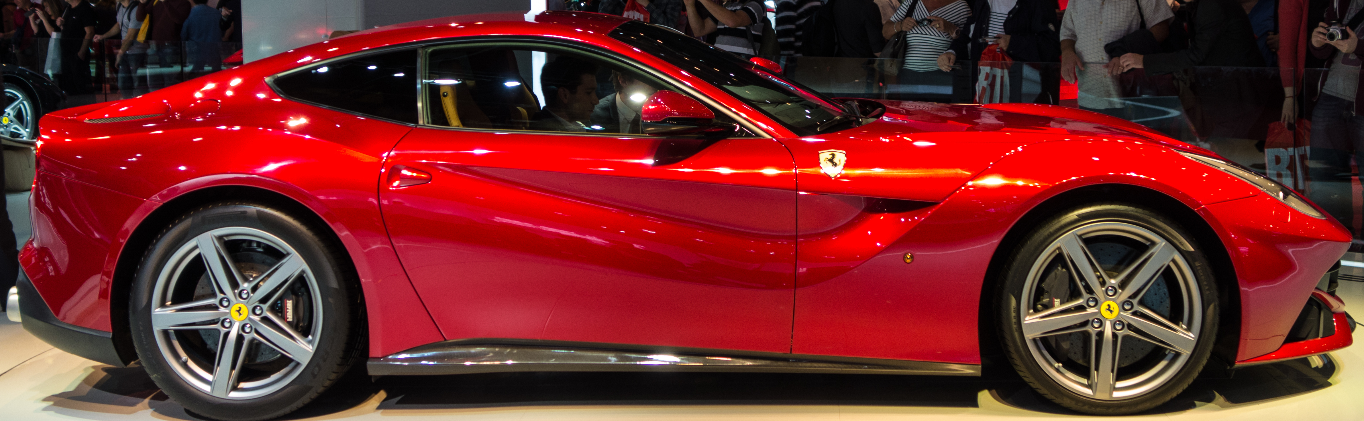 Mondial De L'automobile Paris 2012 | Paris Motor Show 2012